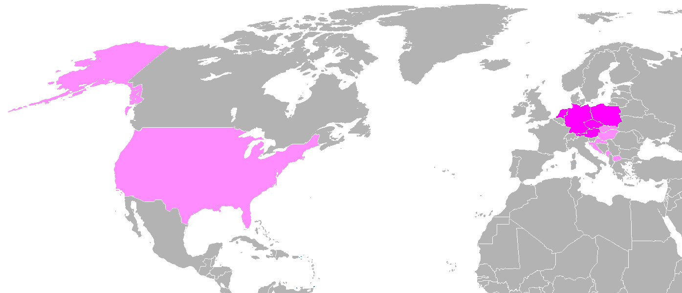 Graphical representation of DTAG shares in T-mobile subsidiaries around Europe updated with T-mobile CZ 100% share.